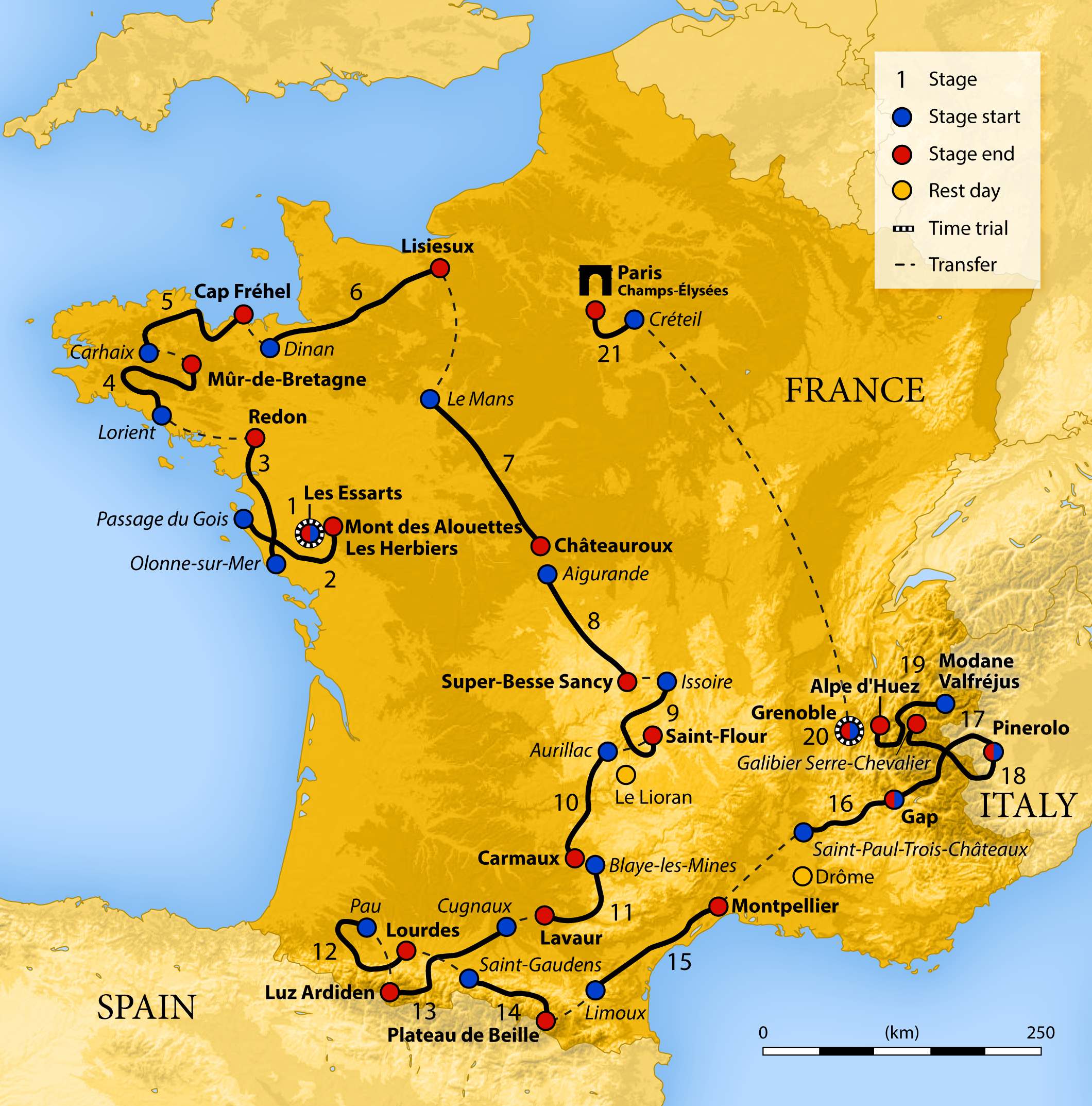 Route map of the 2011 Tour de France.